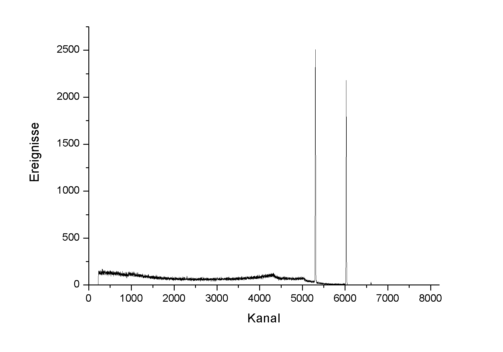 Gamma spectrum of 60Co, observed with a germanium detector. x-axis in detector channels, designation in German.